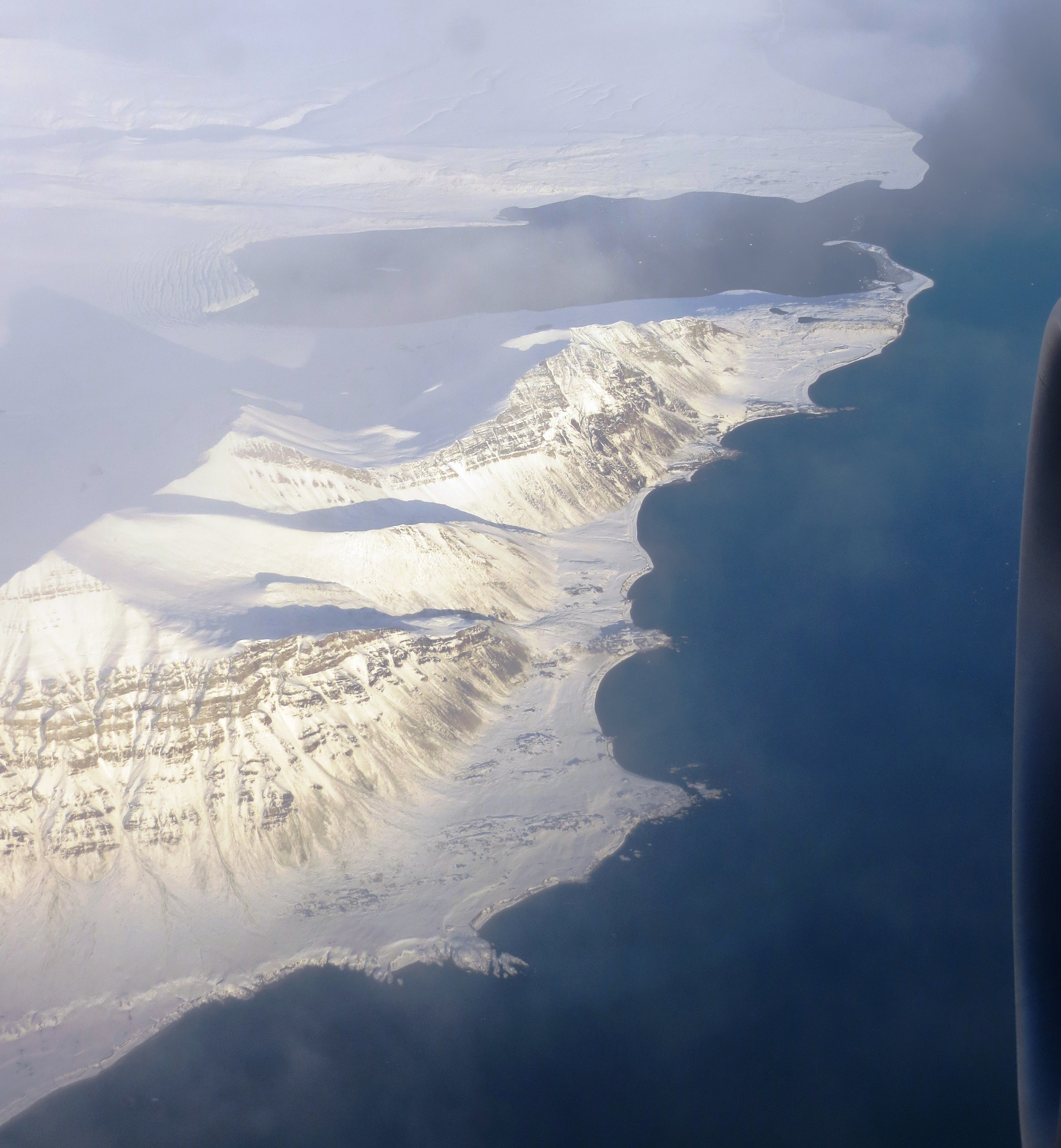 Aerial view of the western part of Nordenskiöld Land, the areas between Bellsund, Grönfjorden and Isfjorden. Western Spitsbergen, Svalbard.